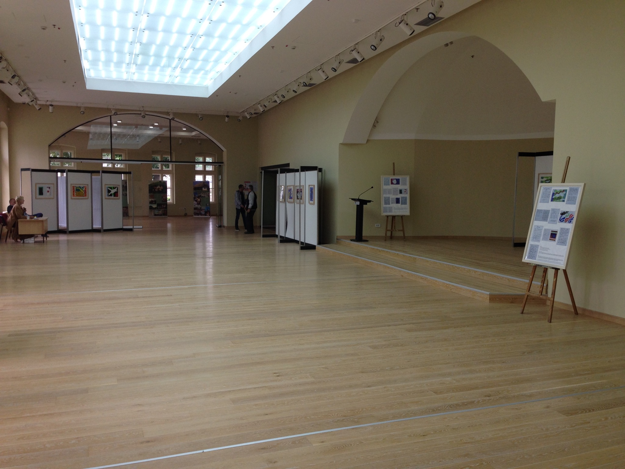 Officers' Club Exhibition Space in Niš